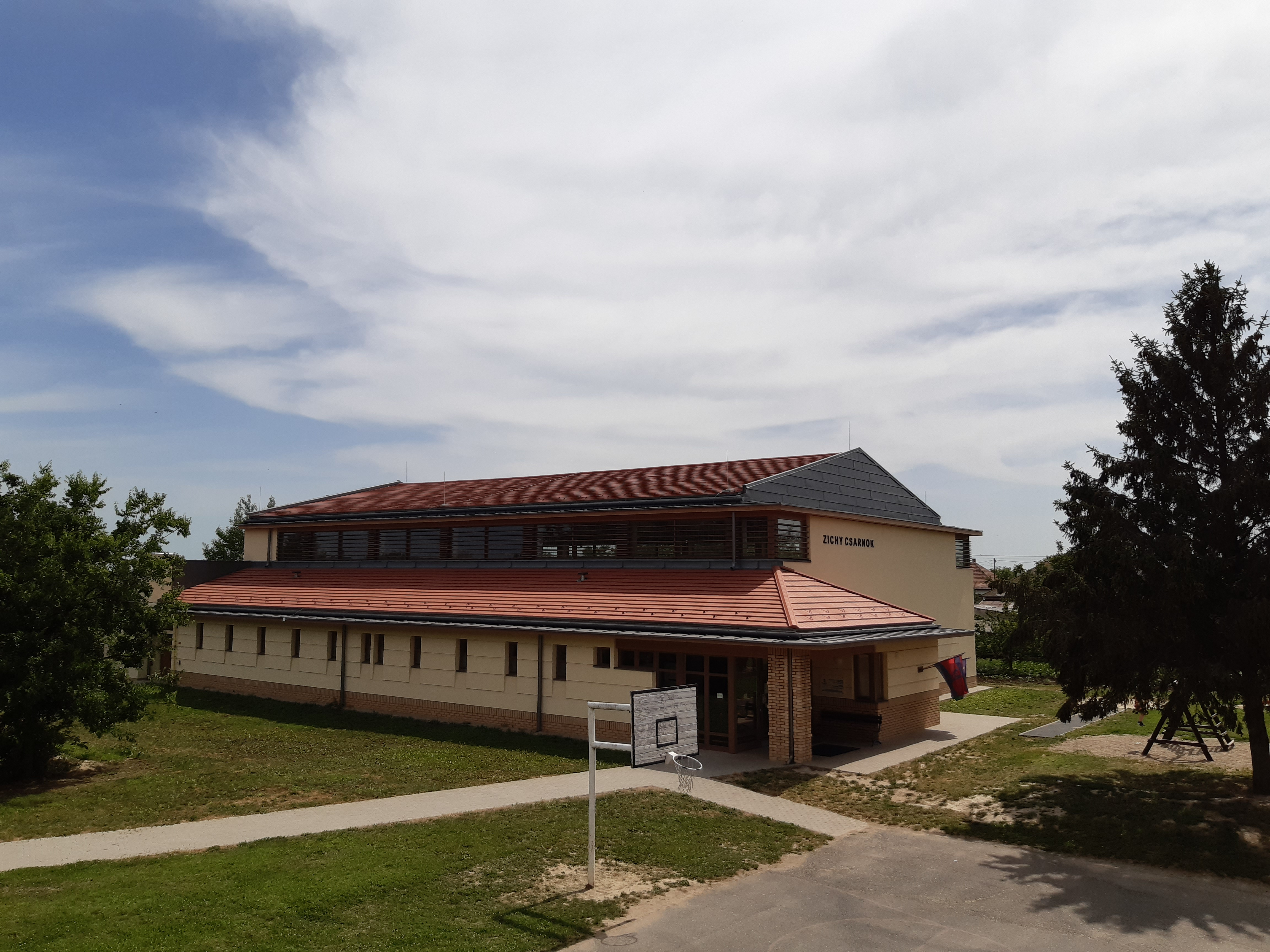 Zichy Gym in Zichyújfalu (2019).